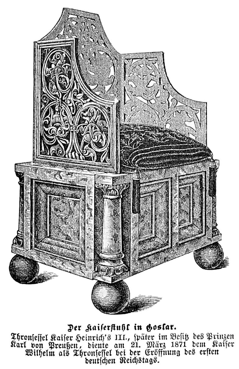 caption: "Der Kaiserstuhl in Goslar. Thronsessel Kaiser Heinrich’s III. später im Besitz des Prinzen Karl von Preußen, diente am 21. März 1871 dem Kaiser Wilhelm als Thronsessel bei der Eröffnung des ersten deutschen Reichstags."